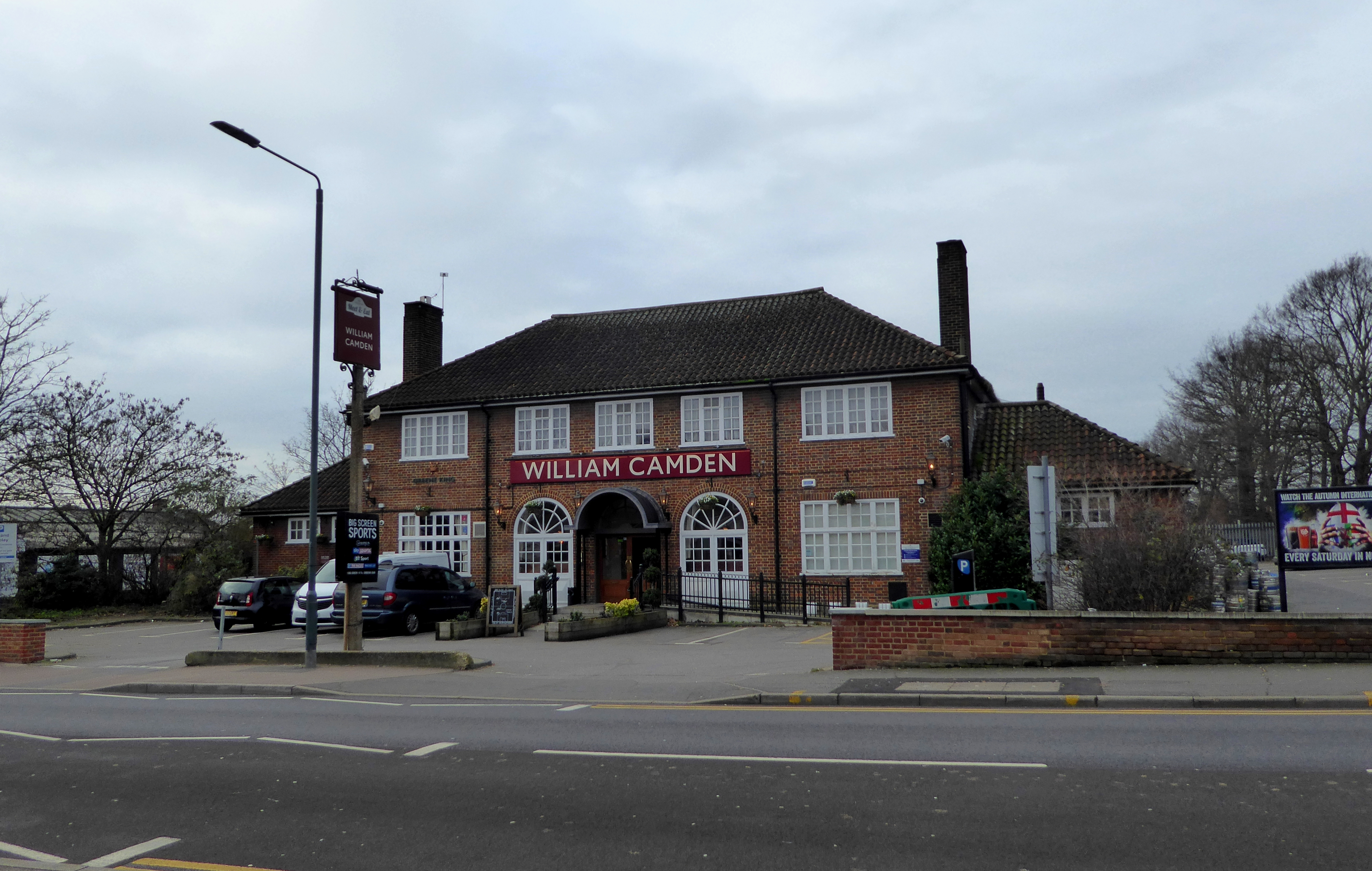 A pub in Bexleyheath, presumably named for the antiquarian William Camden.